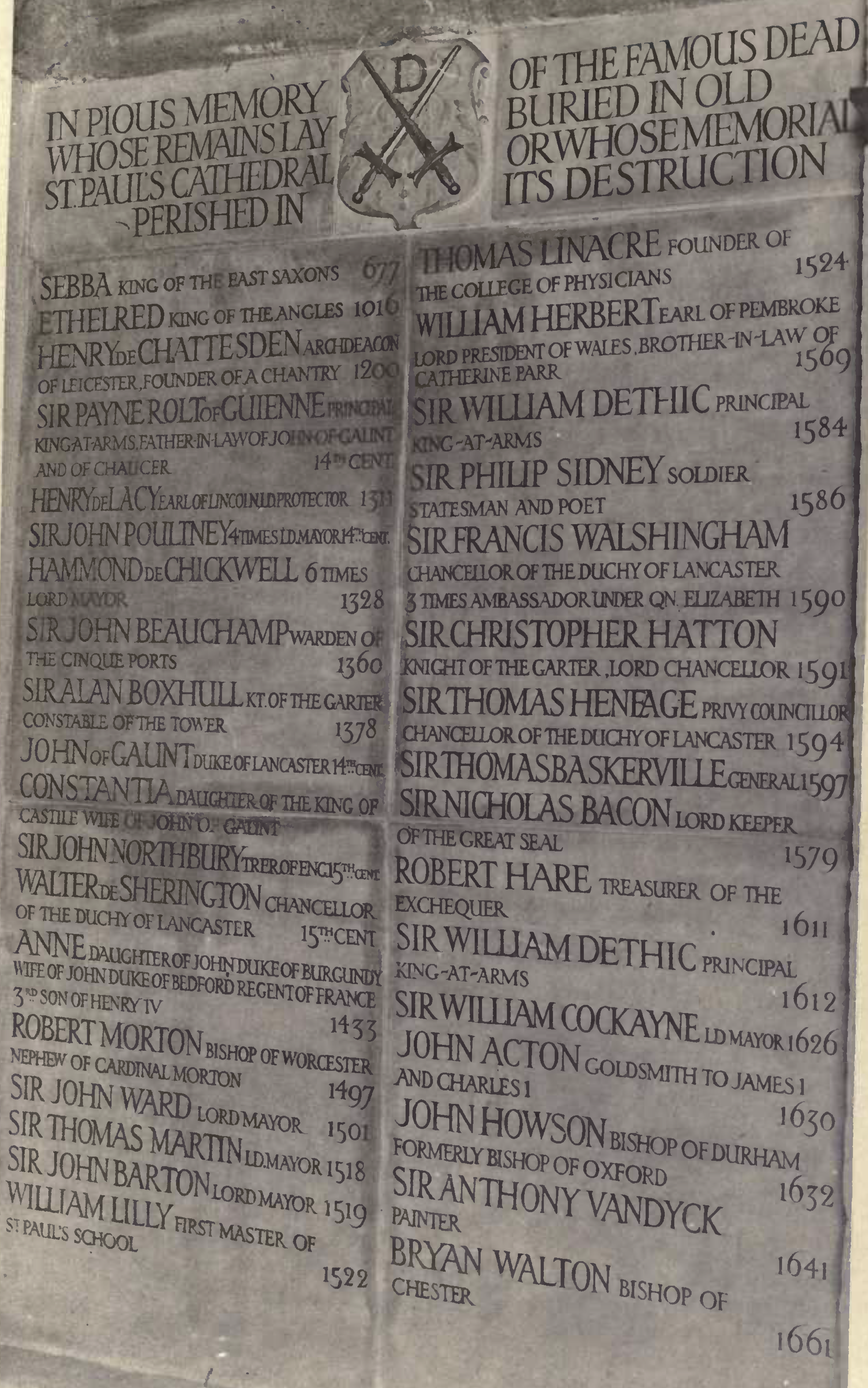 Lettering by Max Gill commemorating those who were buried or memorialised in Old St. Paul's Cathedral but whose tombs have not survived. Notable figures listed include King Ethelred, Henry de Lacey, John Poultney, John of Gaunt, his wife Constance (Constantia) of Castile [in fact an error: it was Gaunt's first wife, Blanche of Lancaster, who was buried in the cathedral], Thomas Linacre, William Herbert, Philip Sidney, Francis Walsingham, Christopher Hatton, Thomas Heneage, Thomas Baskerville, Nicholas Bacon, Robert Hare, William Dethick (or Dethic), William Cockayne, John Howson, Anthony Van Dyck and Bryan Walton.